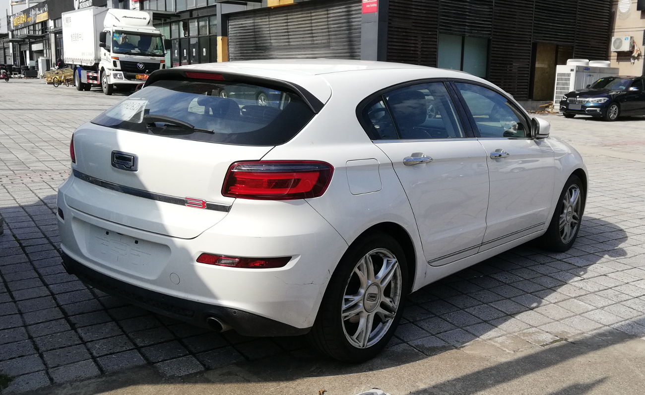 Qoros 3 hatch photographed in Shanghai, China.